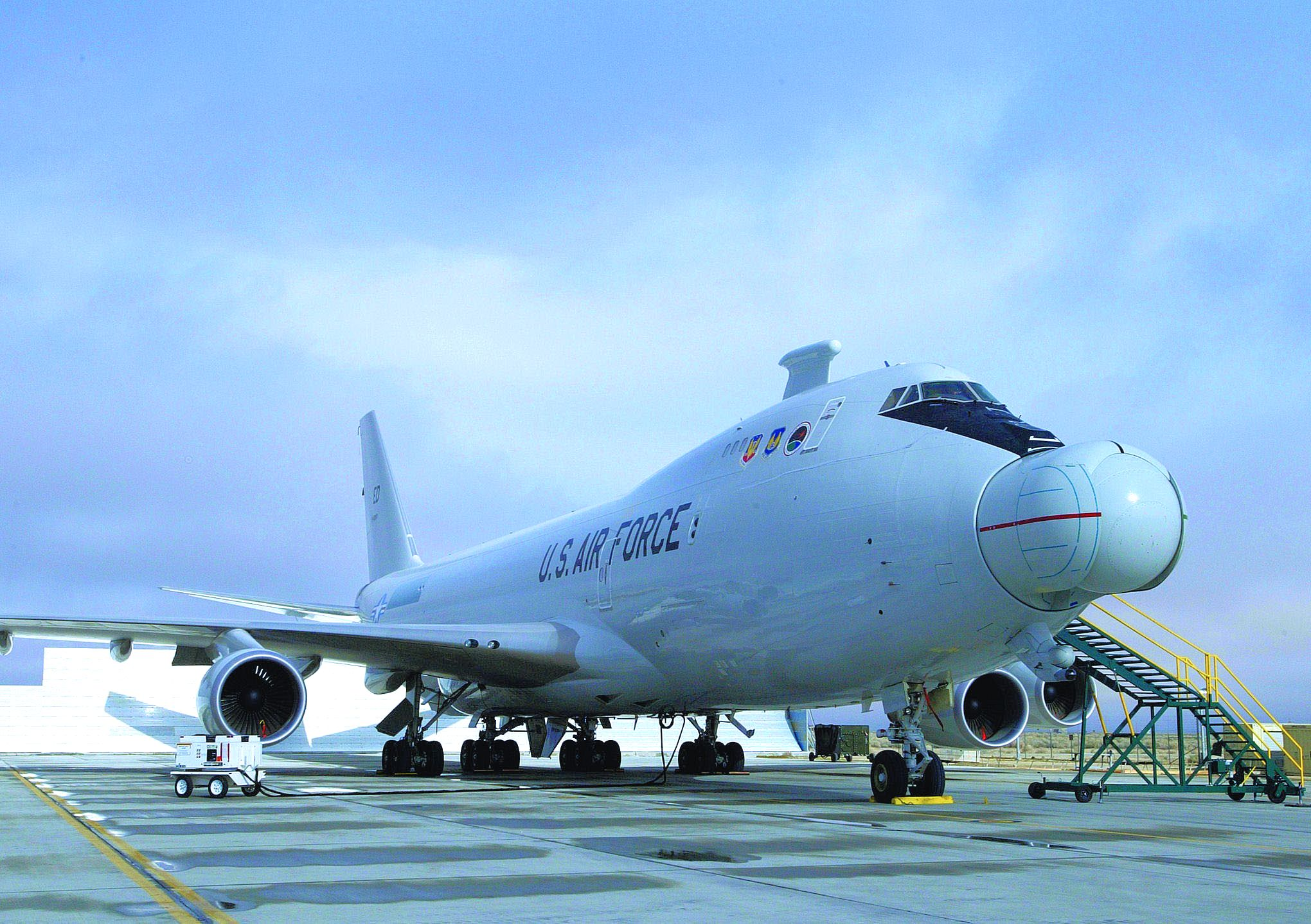 The Airborne Laser program, formerly of the 452nd Flight Test Squadron, now falls under the 417th Flight Test Squadron, which was activated in a ceremony March 16, 2006. The 417th FLTS, comprised of about 750 people, including the contractor workforce and the government workforce, is responsible for flight testing the YAL-1A Airborne Laser aircraft, shown above. The aircraft is currently in Wichita, Kan., receiving modifications to the sub-structure of the aircraft to accommodate the integration of the weapons system. (Photo by Master Sgt. James Graham) Airborne laser platform conversion of Model 747-400F Freighter, Model 747-4G4F. First firing of laser made on ground at Edwards AFB,CA Nov 24, 2008.